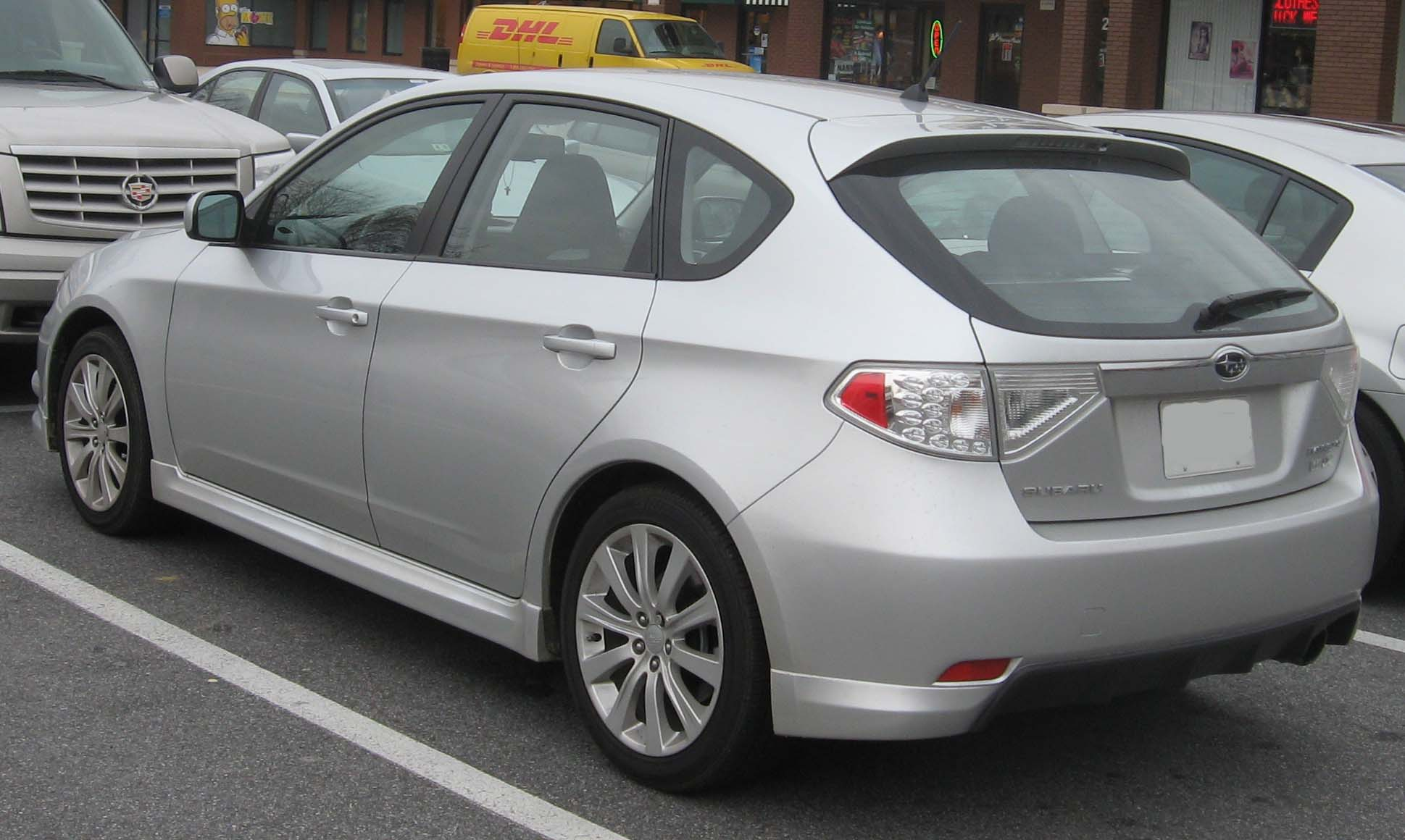 2008 Subaru WRX photographed in Fort Washington, Maryland, USA.